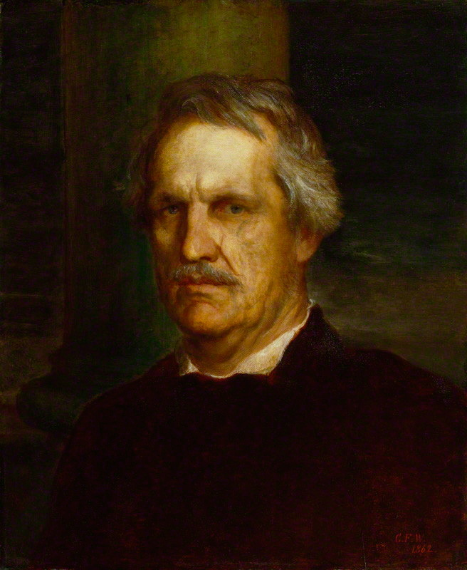 John Laird Mair Lawrence, 1st Baron Lawrence (1811-1879), Viceroy of India.